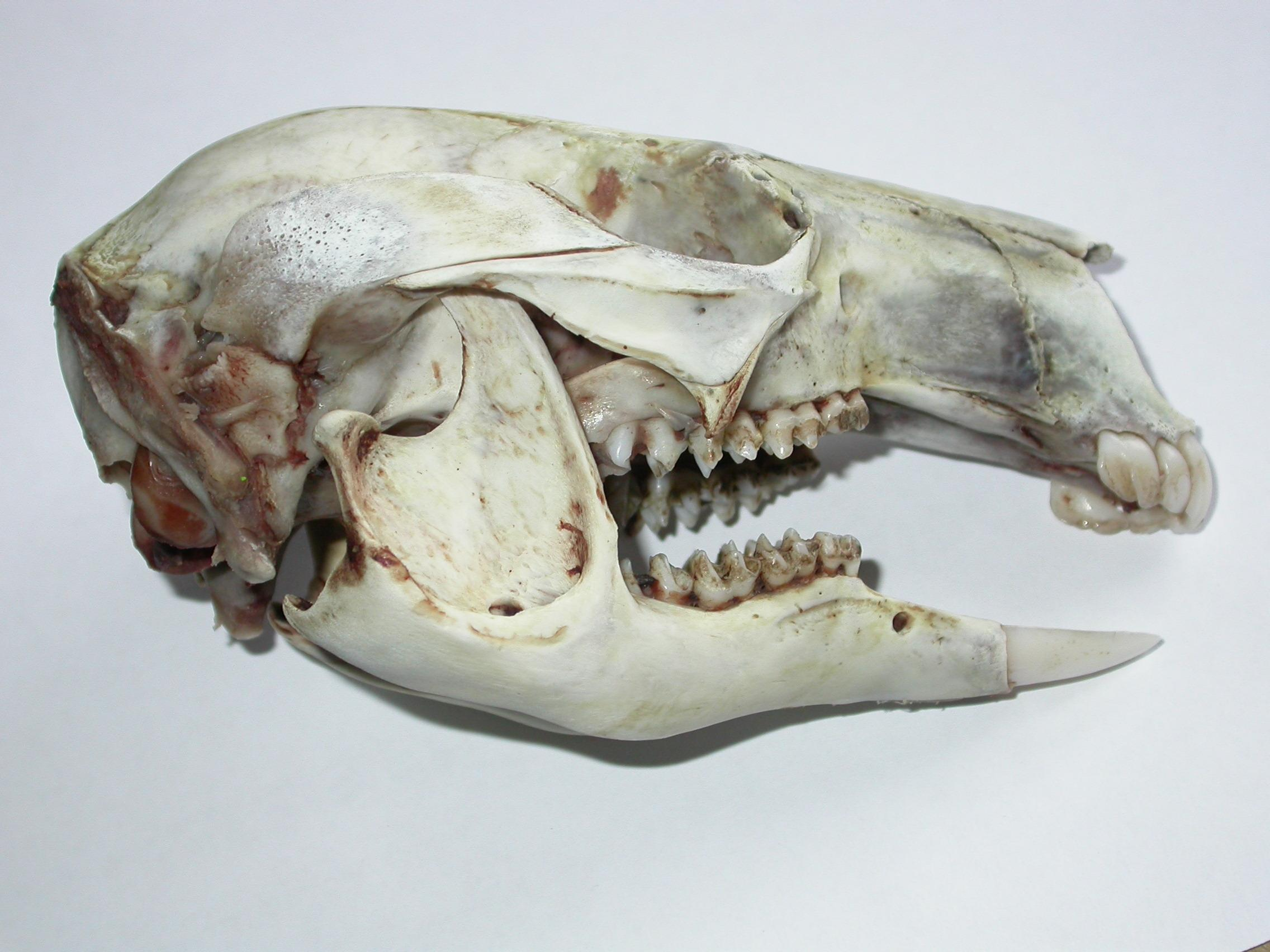 Subadult male Bennett's wallaby (Macropus rufogriseus rufogriseus) skull